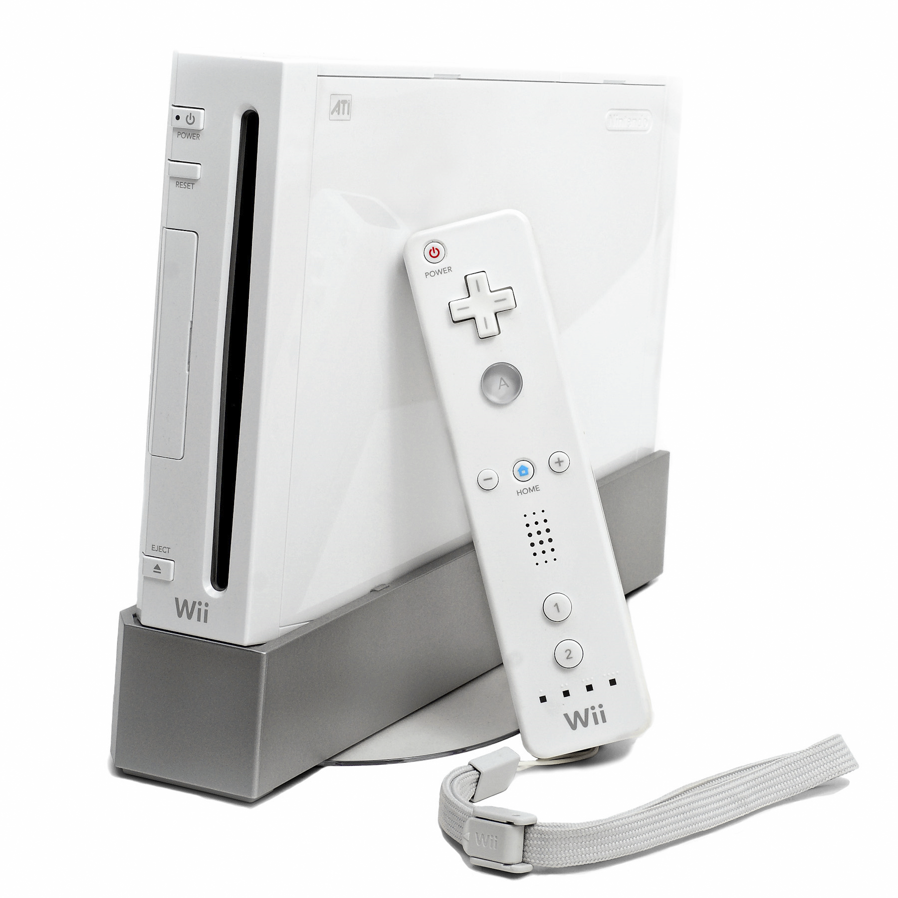 The Wii console by Nintendo. Featured with the Wiimote.